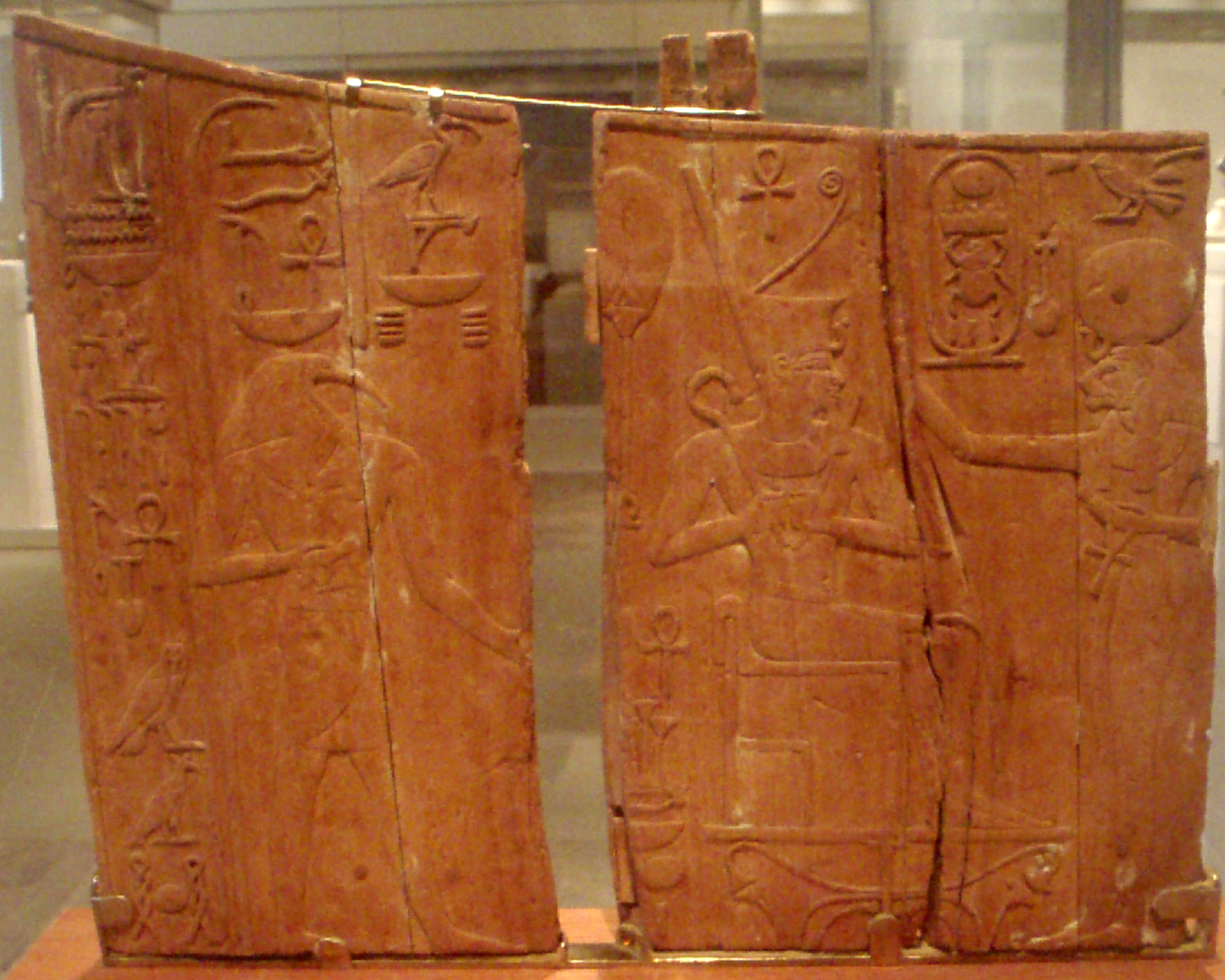 Arm panel from a chair found in KV43, from the reign of Thutmose IV, circa 1400-1391 B.C.On this side the pharaoh sits on a throne, wearing the red crown of Lower Egypt, facing Weret, a lion-headed goddess. Made of cedar wood, once gilded. On display at the Metropolitan Museum of Art.